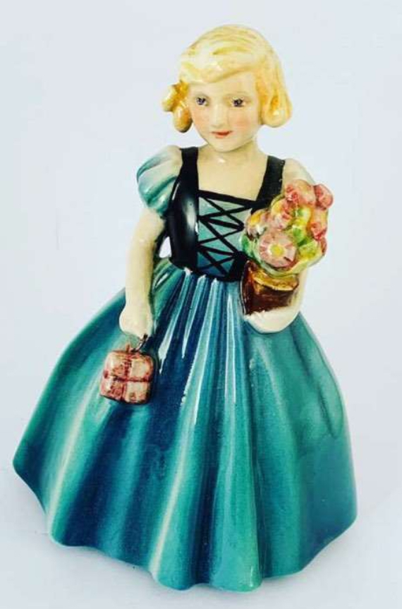 Keramos Blumenmädchen